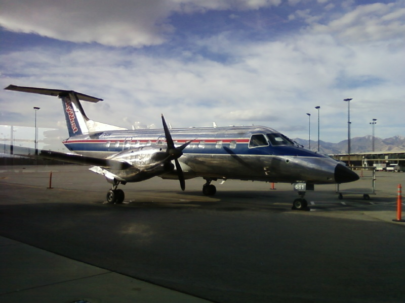 SkyWest aircraft at Salt Lake City Int'l Airport